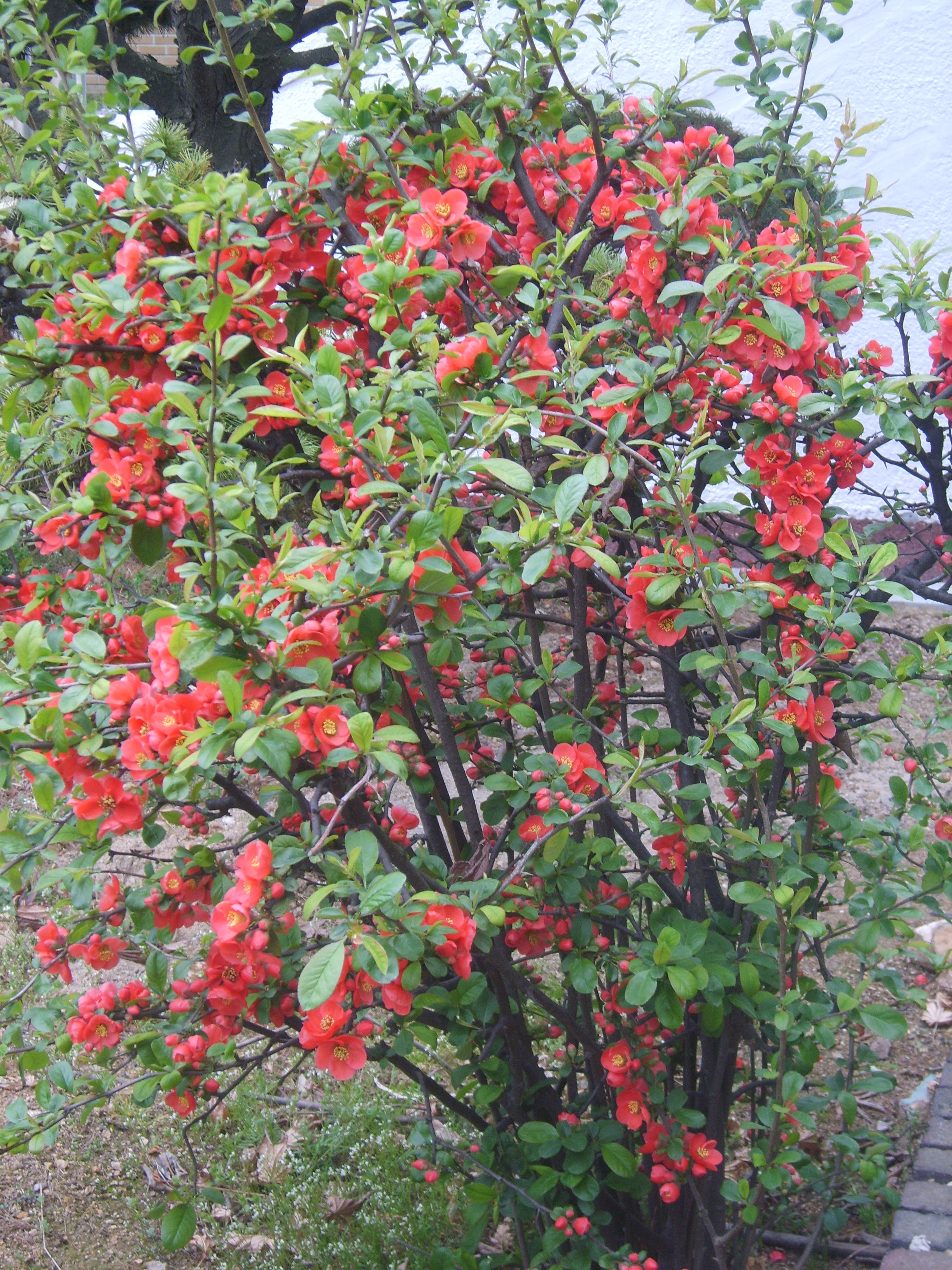 Chaenomeles lagenaria in Incheon Korea 2008 spring. 인천 부일여중에서 찍은 명자나무